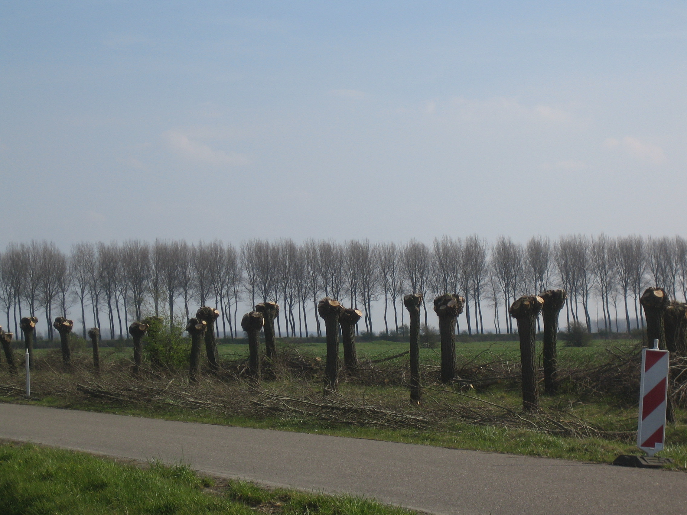 I took this photograph myself in April 2007 and hereby release it into the public domain to the maximum extent possible in relevant jurisdictions.